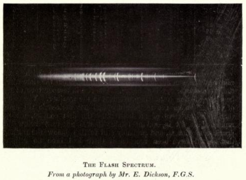 Flash spectrum of the total solar eclipse, August 1905. Photographed by E. Dickson at Burgos, using a 14540 lines per inch Thorp grating.